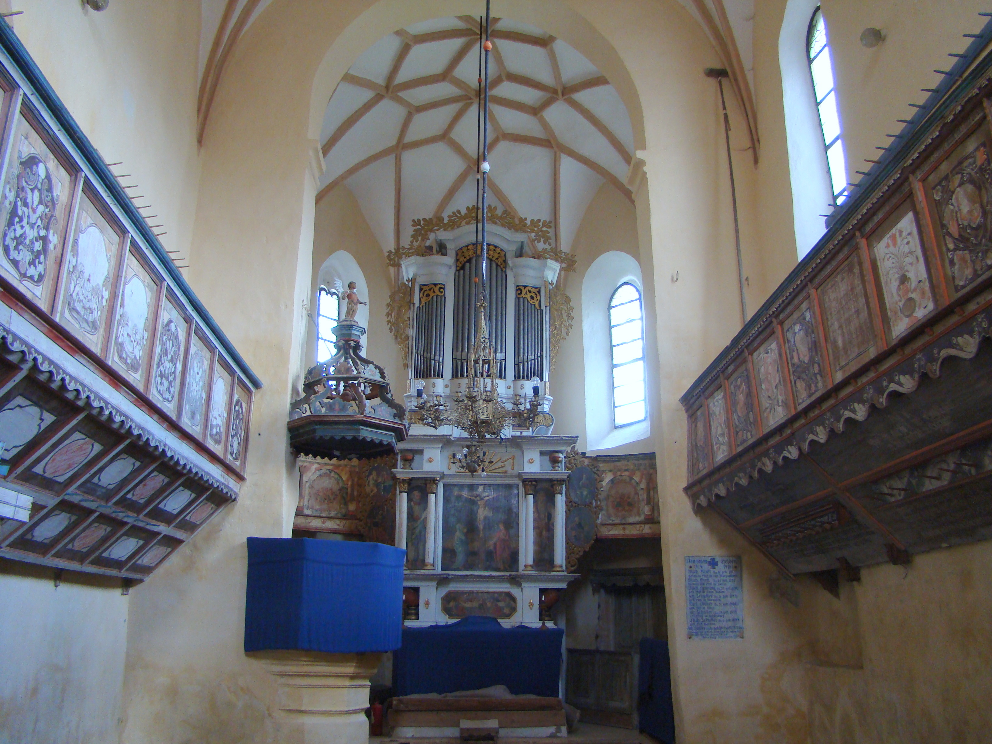 Lutheran church in Cloașterf, Mureș county, Romania